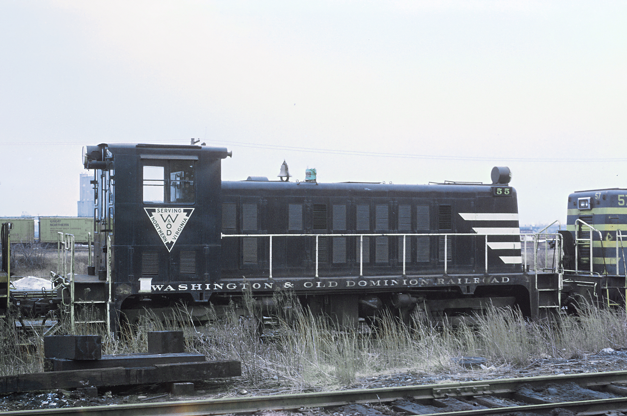 Washington & Old Dominion Railroad #55, a Whitcomb 75-tonner, at the B&O Riverside Yard in Baltimore in January 1969